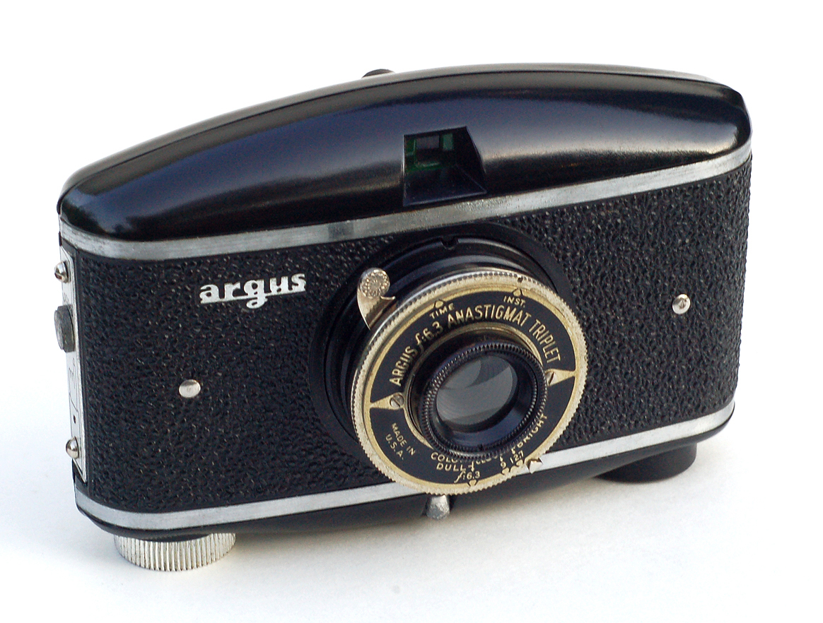 The Argus M is a small bakelite camera with a great streamlined design, introduced in 1939. The camera sported a 47mm f6.3 lens within a collapsible mount, and had the unique ability to take either full-frame or half-frame pictures on 828 film. The Model M was only manufactured in 1939-40, but years later, Argus used the same body style for another camera named the Model 19, AKA the Minca 28. Argus likely sold the dies at some point, and the camera was later produced as a premium under the names Delco 828 and Camro 28.